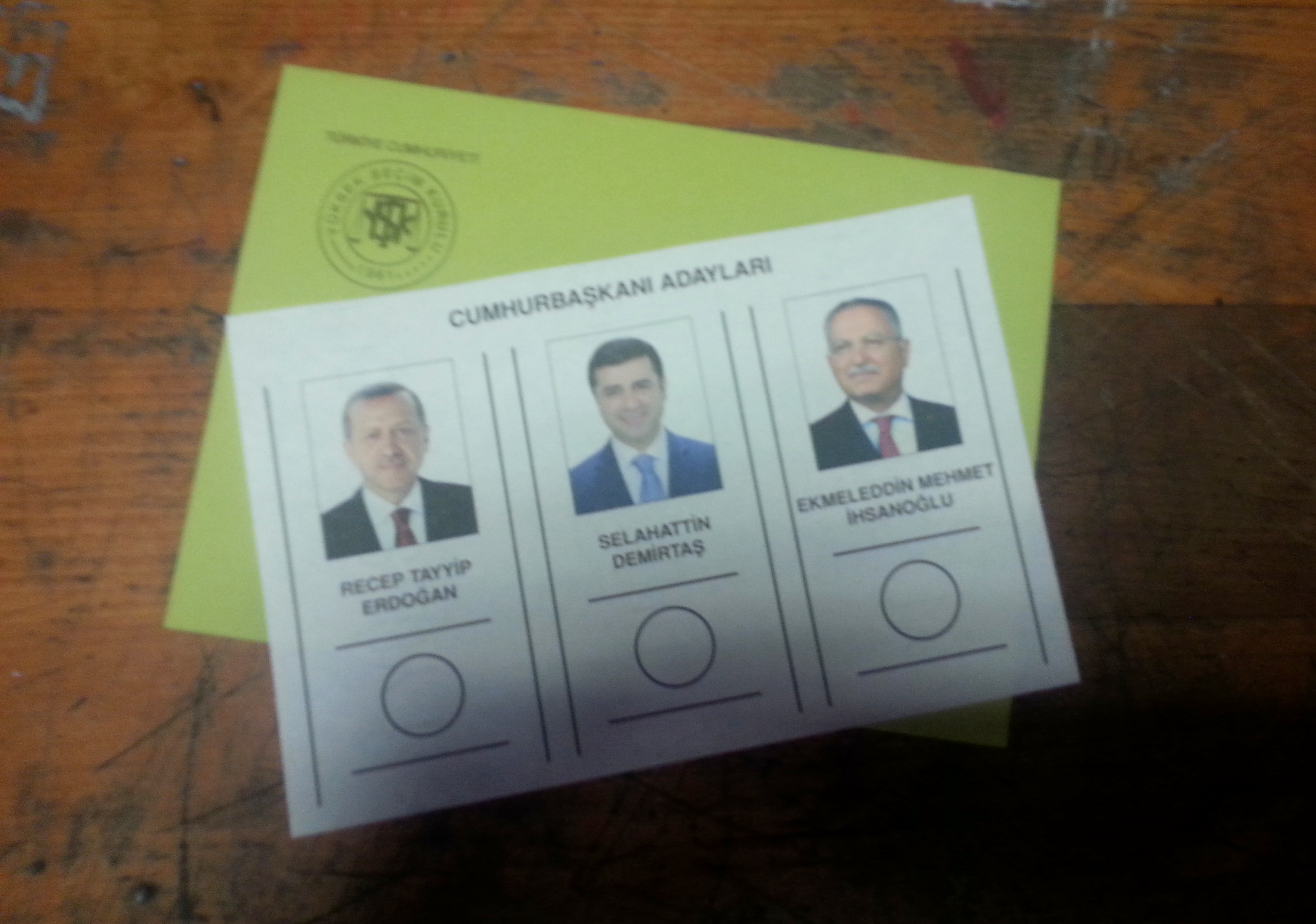 Ballot paper and envelope which includes the names and photos of candidates for 2014 Turkish Presidential Election.